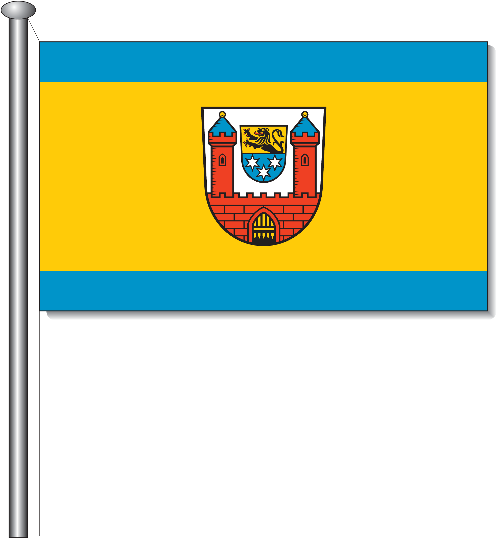 horizontal display flag of the German city of Calau.